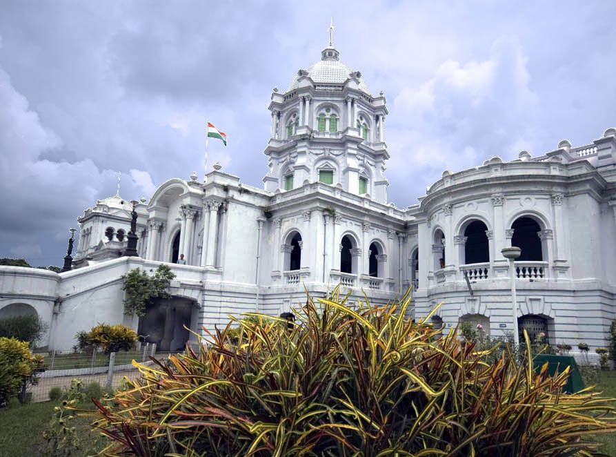 A view of the Ujjayanta Palace, the former residence of the erstwhile rulers of Manikya Dynasty.